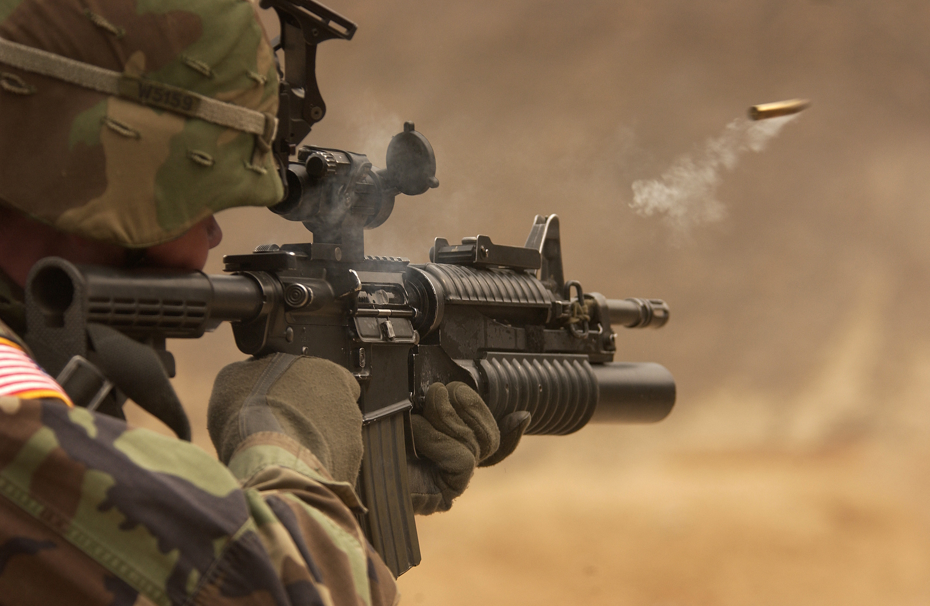 A shell casing flies out with a trail of smoke as U.S. Army Pfc. Michael Freise fires an M-4 rifle during a reflex firing exercise at the Rodriguez Live Fire Complex, Republic of Korea, on March 23, 2005. Freise is attached to the 1st Battalion, 72nd Armor Regiment, which is taking part in exercises Reception, Staging, Onward movement, and Integration/Foal Eagle. The annual, multi-phase exercise is tailored to train, test, and demonstrate U.S. and Republic of Korea force projection and deployment capabilities.